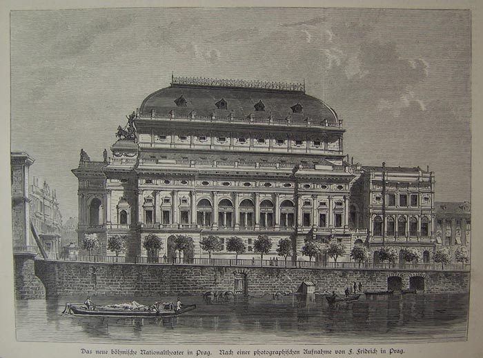 National Theater, Prague, 1881, woodcut.The German text below the image says: The New Czech National Theater in Prague. After a photograph by F. Fridrich in Prague.